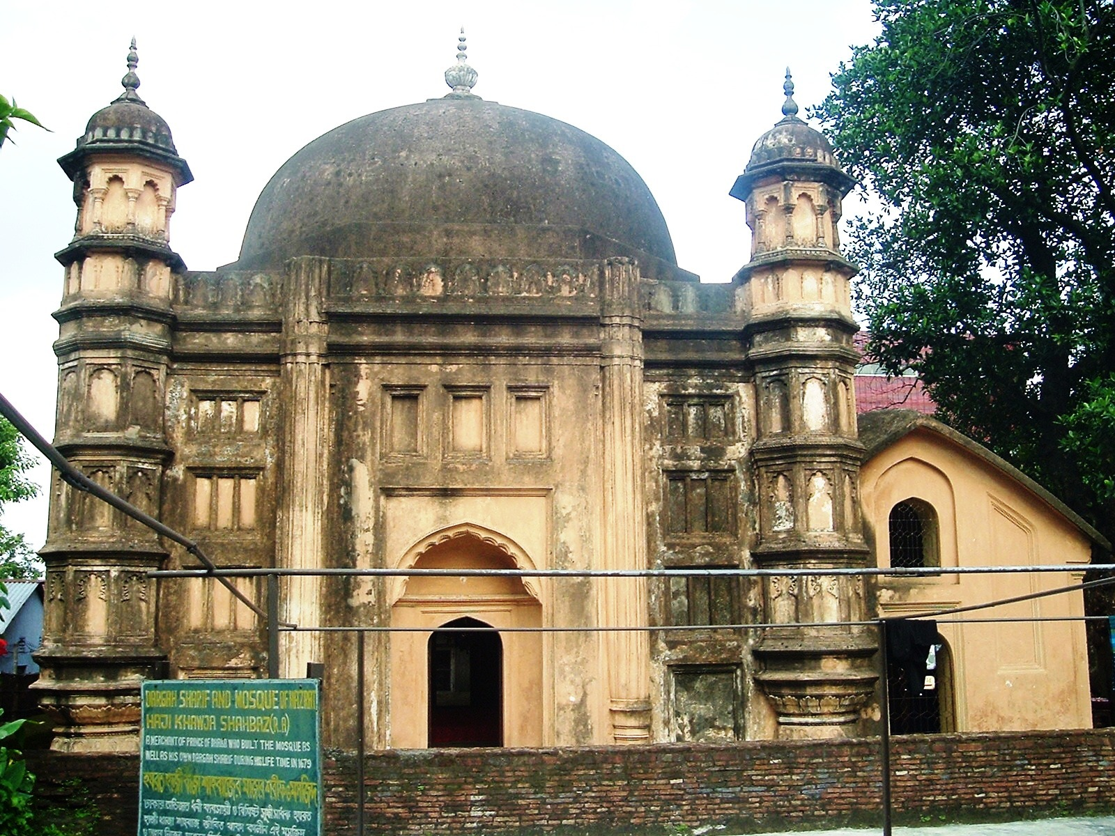 Tomb of Hazi Shahabaz, at Dhaka University Campus. (1679)